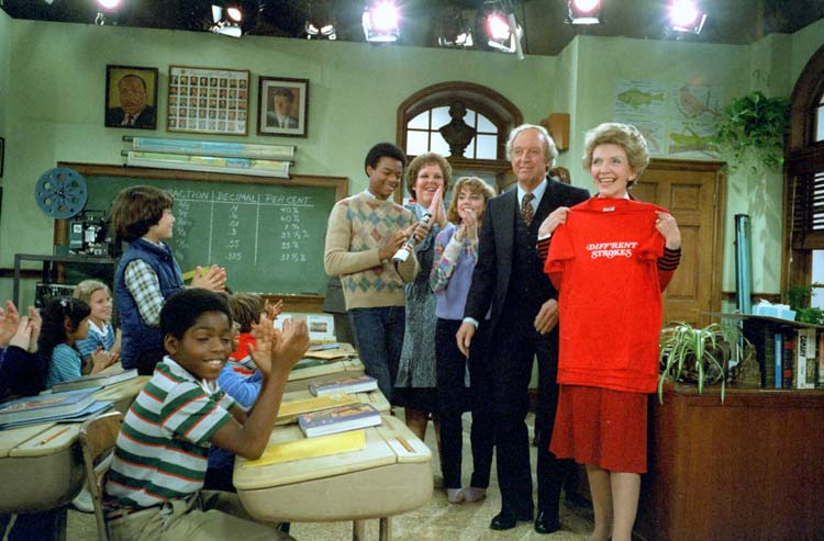 C13387-9, Nancy Reagan on the set of television show "Diff'rent Strokes" with Conrad Bain, Gary Coleman, Todd Bridges, Dana Plato, and Mary Jo Cattlett. 3/9/83.